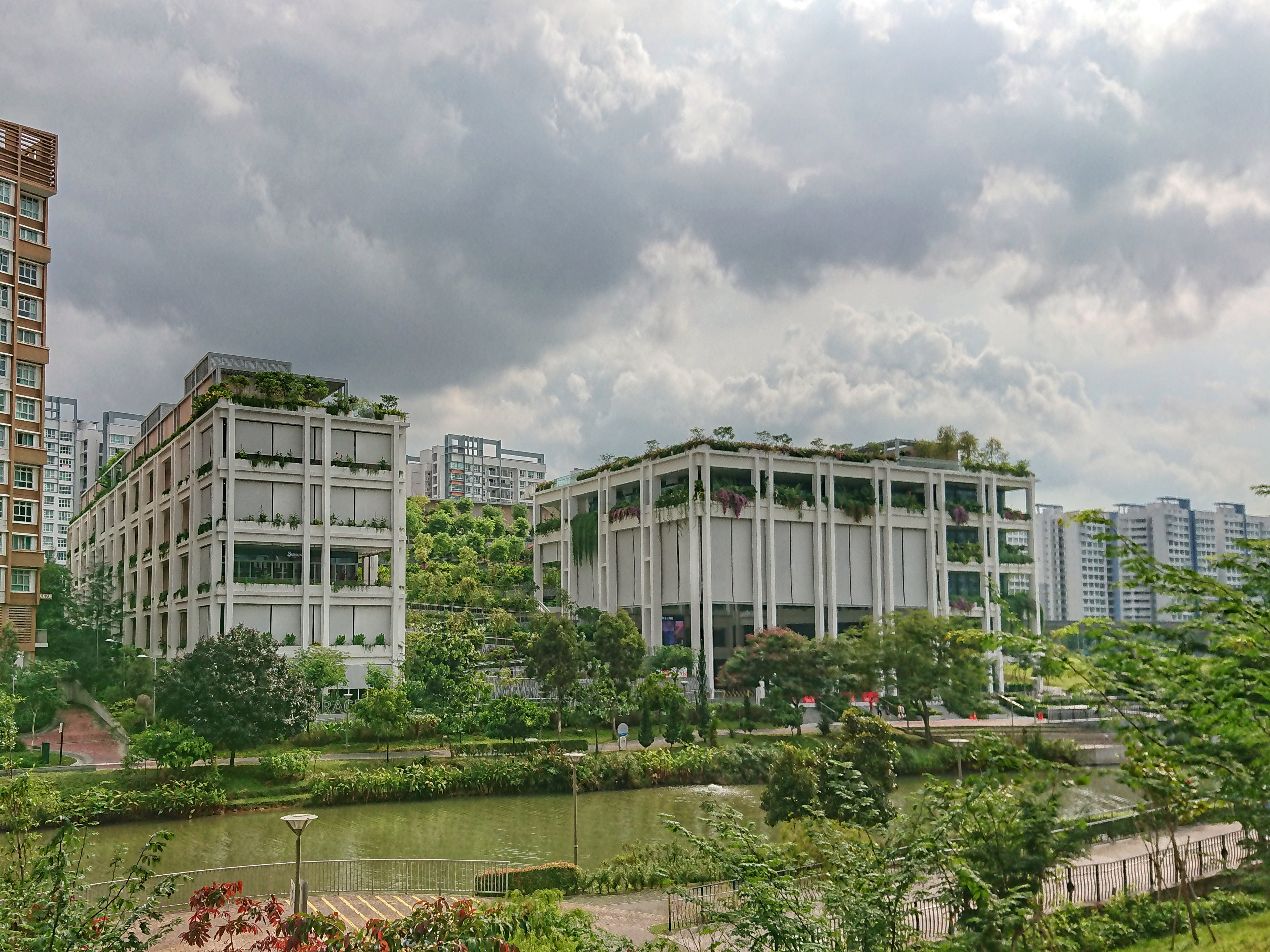 View of Oasis Terraces from the Punggol Waterway. Taken with Xperia XZ Premium.